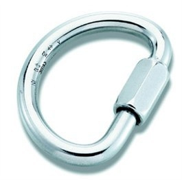 Dee Or Delta Type Mallion